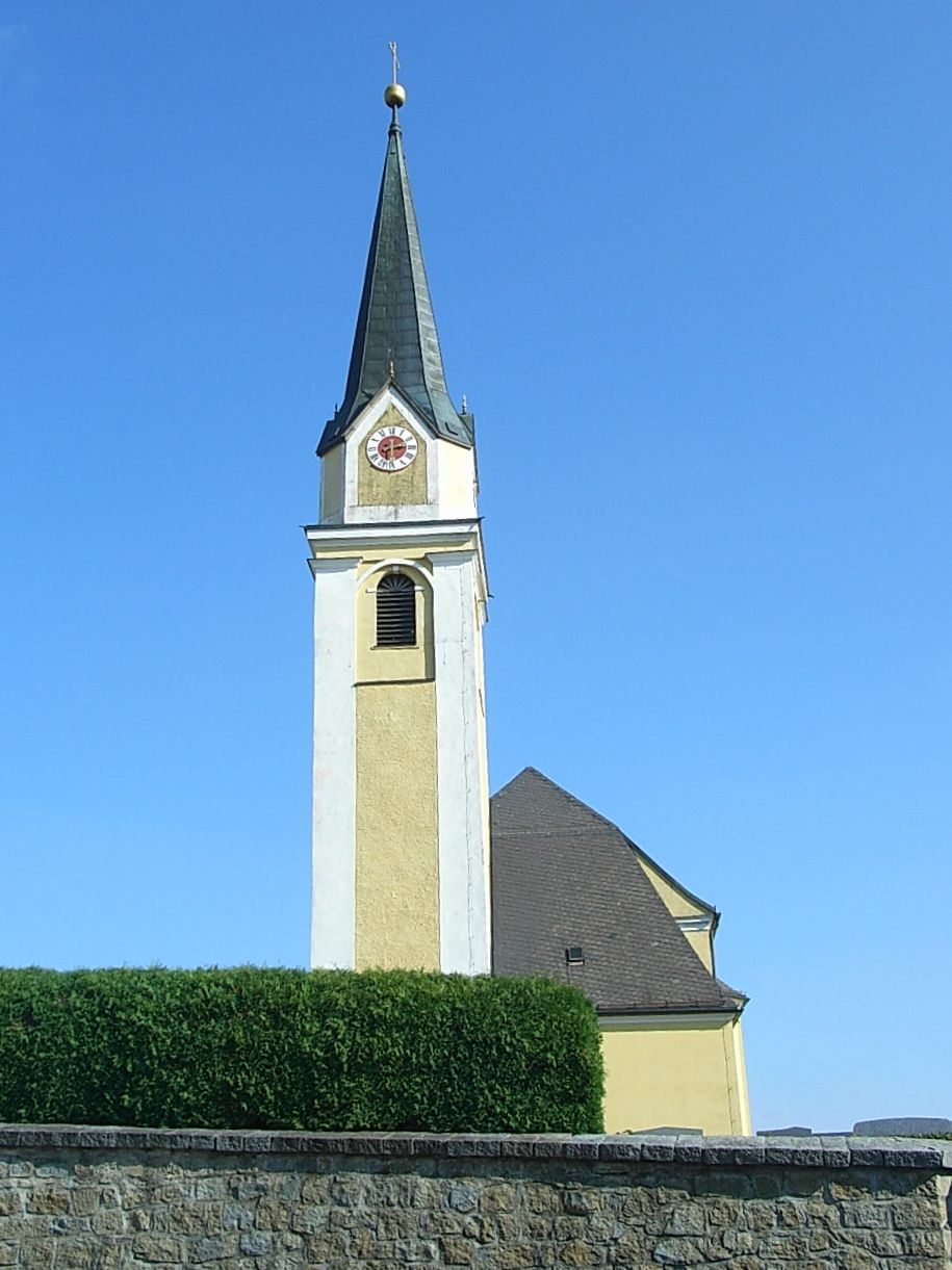 Aicha vorm Wald, St Peter and Paul Parish Church from west.